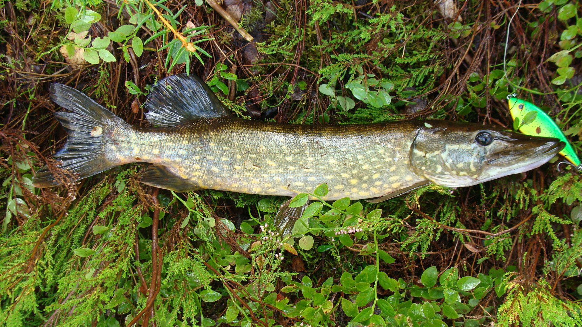 Northern pike caught on jerkbait